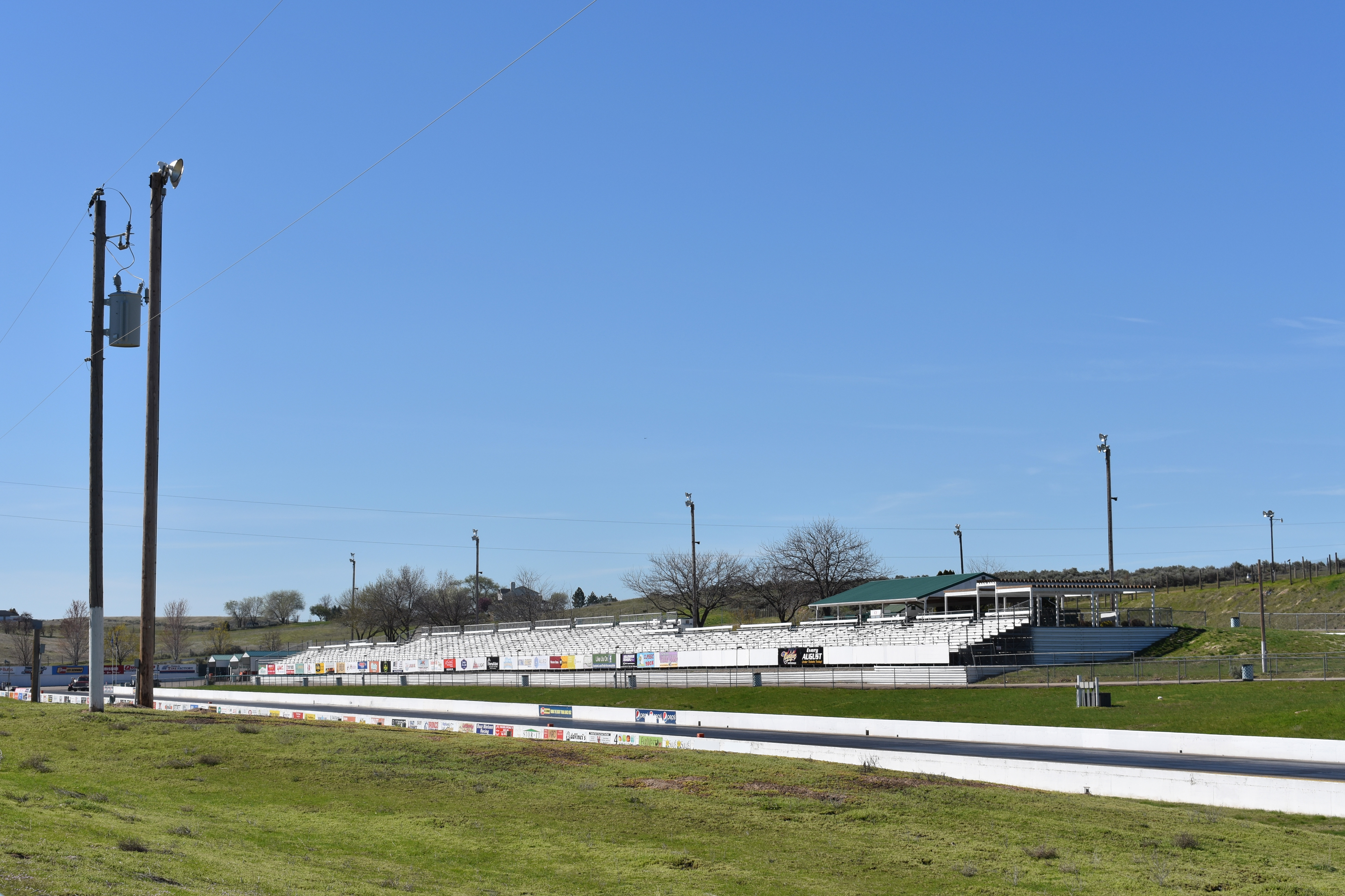 Firebird Raceway near Eagle, Idaho, was established in 1968 and is listed on the National Register of Historic Places.